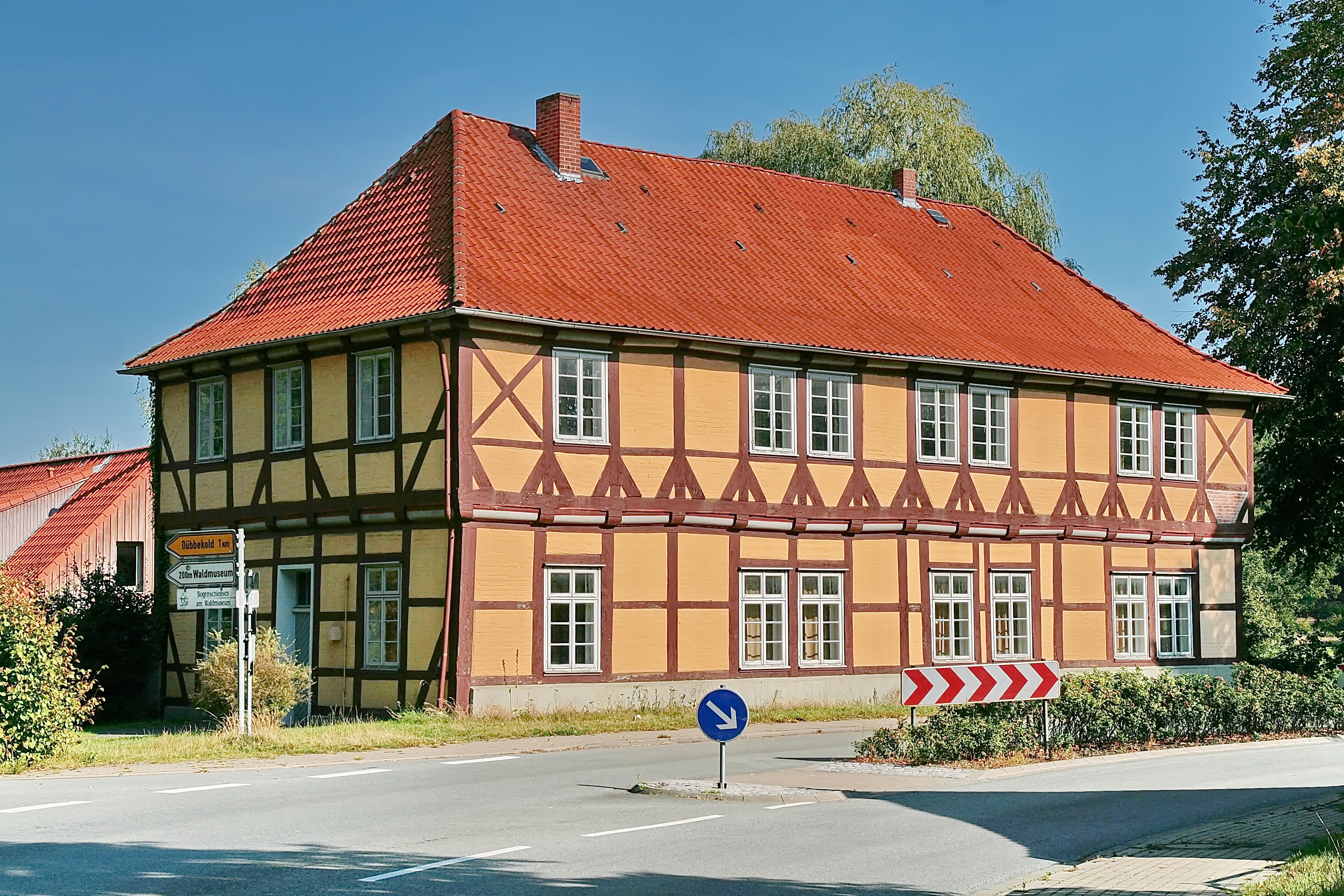 Jagdschloss Göhrde in Göhrde, Niedersachsen, Deutschland